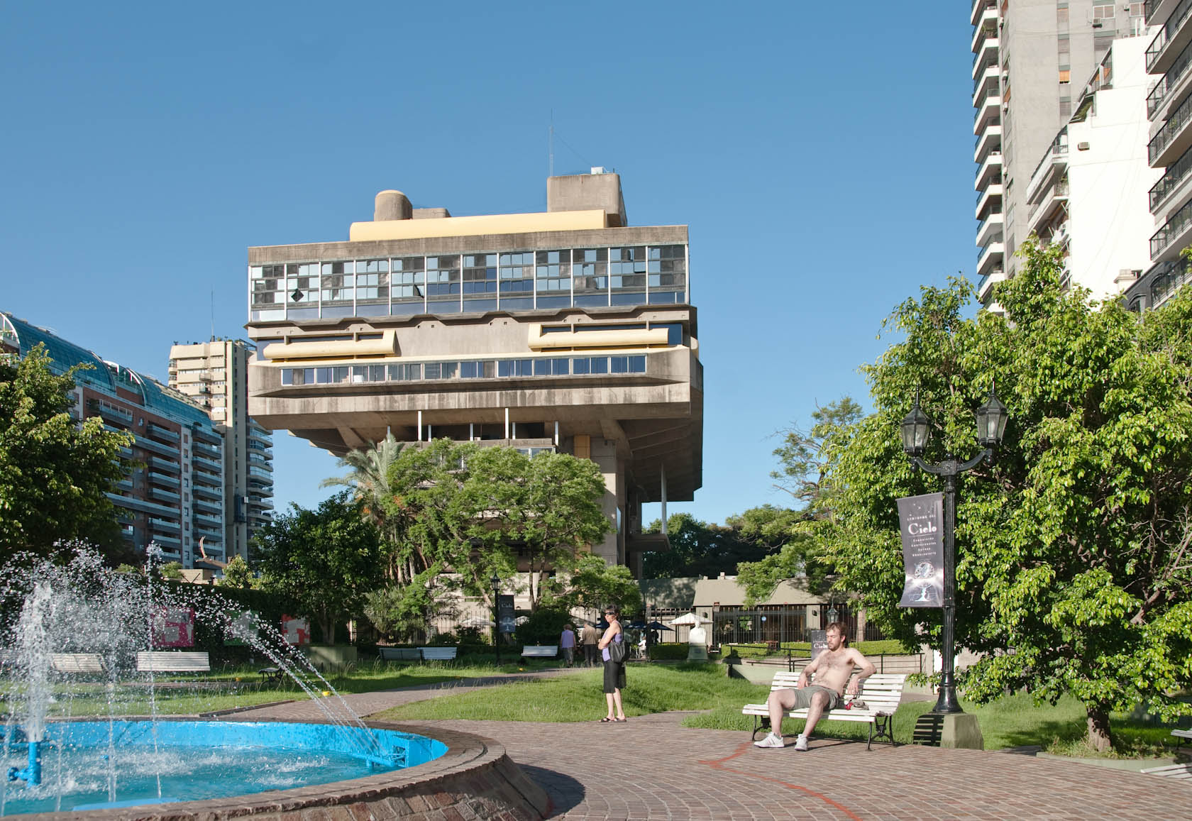 The Argentine National Library, designed by Clorindo Testa in 1962, and completed in 1992.